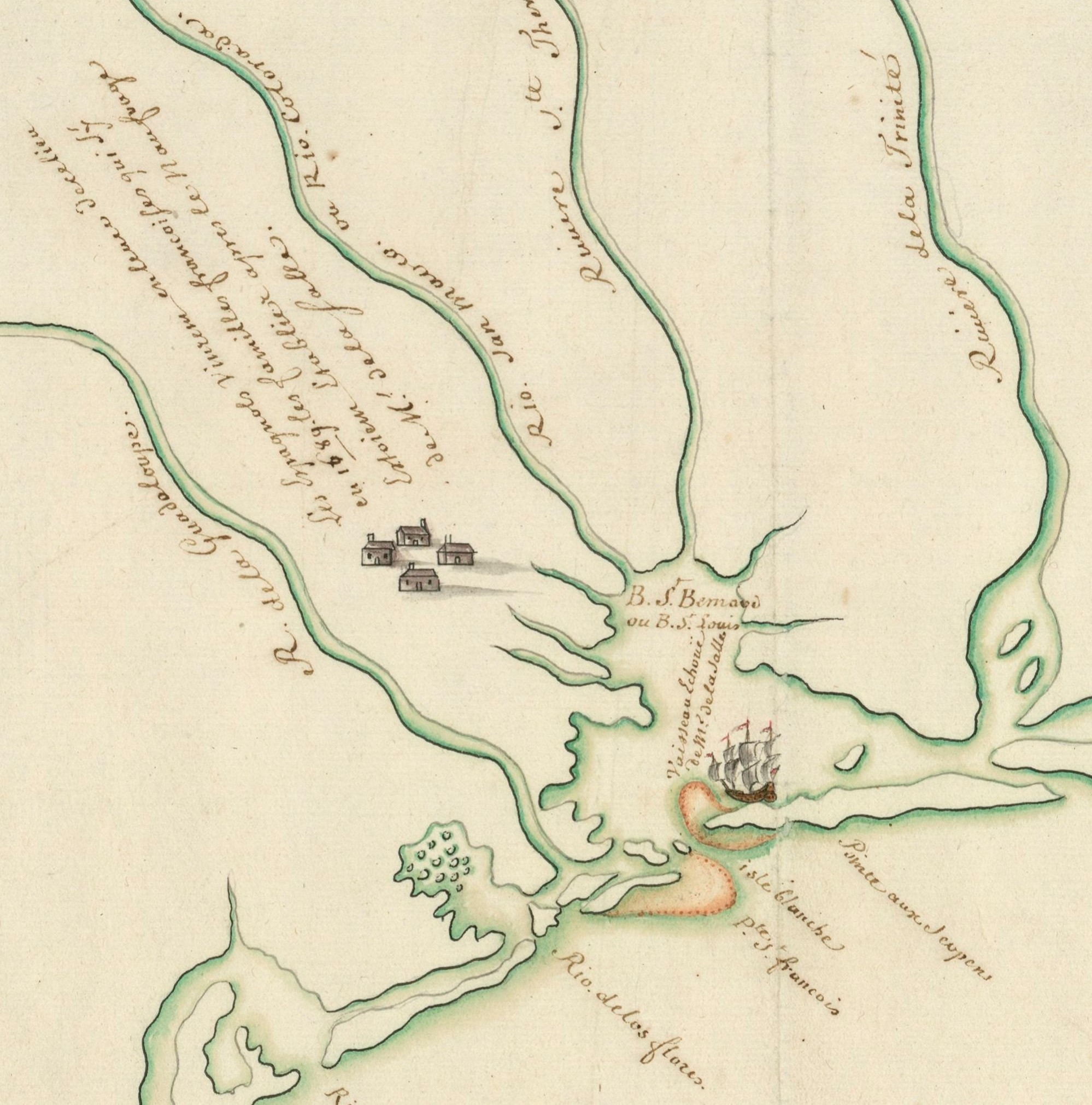 Detail of a late 17th or early 18th century plan showing the sinking of a ship of Robert Cavelier de La Salle (La Belle ?) In 1686. Bay of Matagorda, Gulf of Mexico. Text near the boat : the ship shipwrecked by Monsieur de La Salle. Text near the houses : the Spanish saw removed from this place in 1689 the French families who had settled there. (Approximate translation).